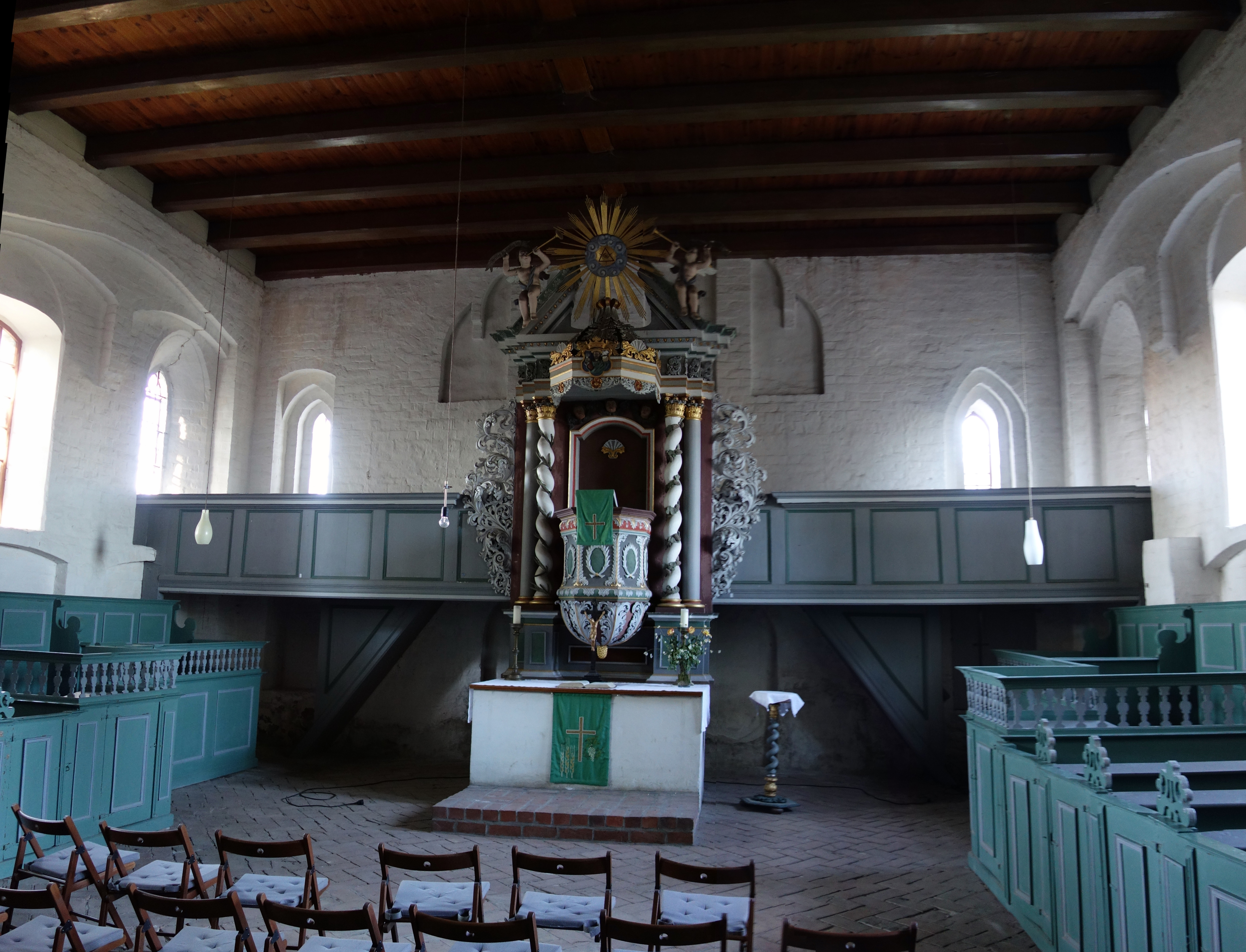 Eastern interior of church in Buckow, Nennhausen municipality, Havelland district, Brandenburg state, Germany.